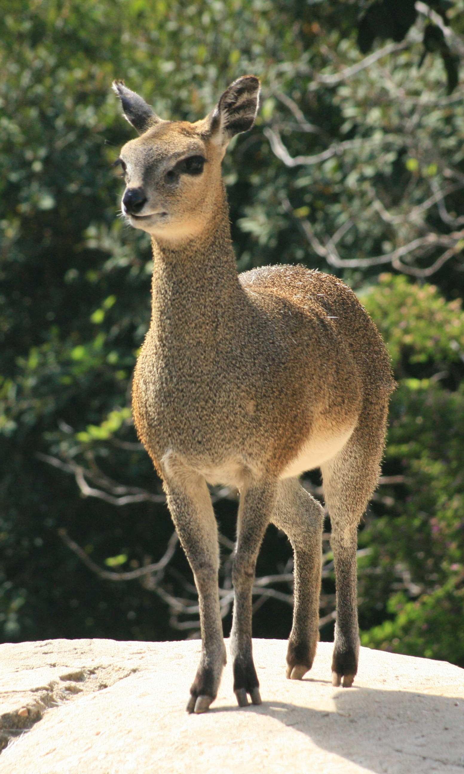 A female Klipspringer at San Diego Zoo, California, USA.